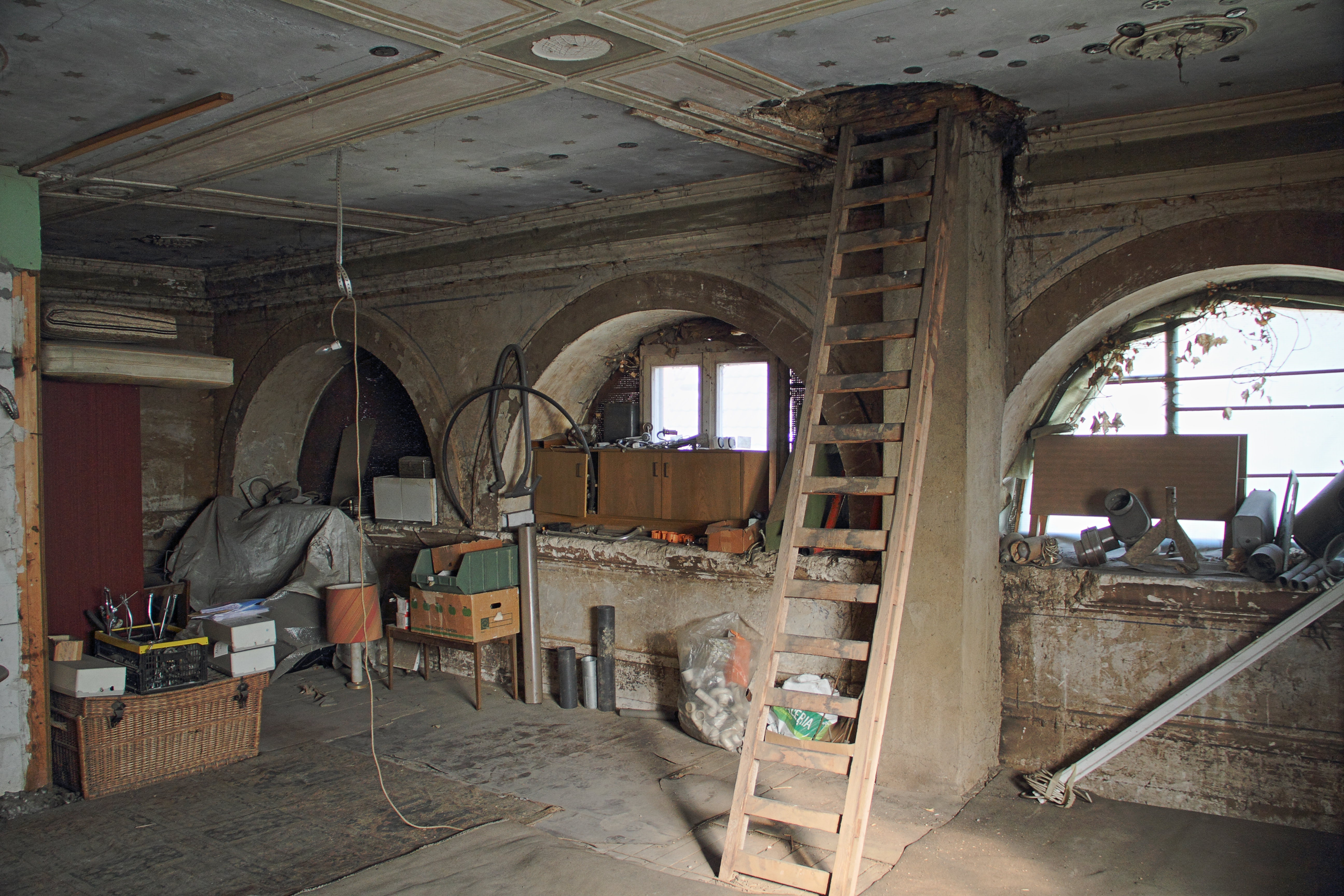 The house at Wilhelmstraße 16 was a synagogue until 1928. Since the end of the 1950s it is used as a cabinetmaker´s workshop.